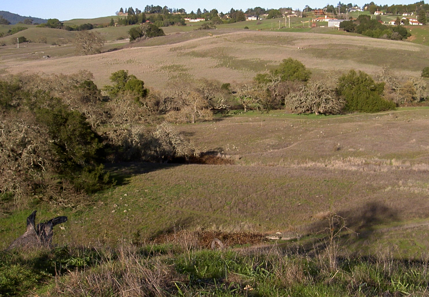 Vista in Crane Creek Regional Park looking northeast across the meadow and Crane Creek toward the Sonoma Mountains